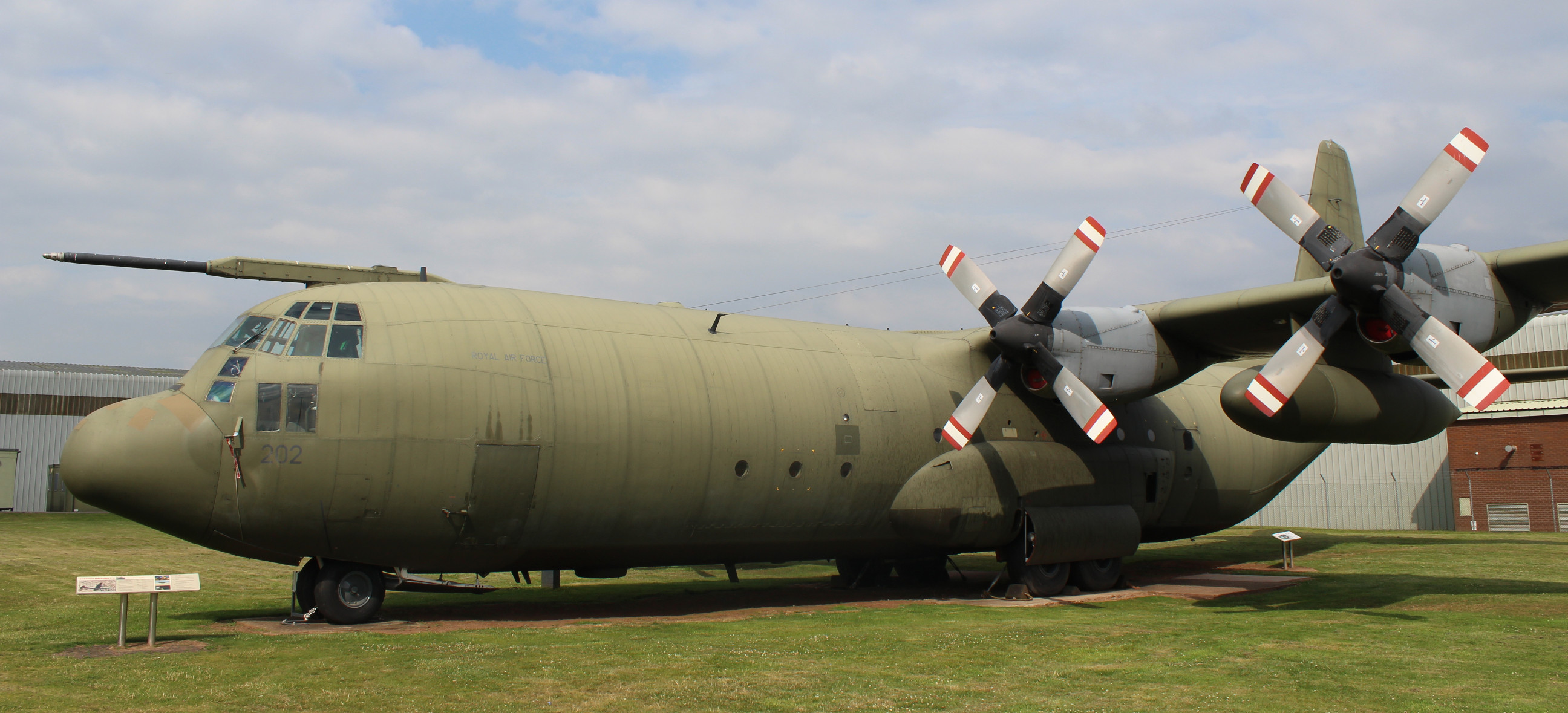 XV202 parked outdoors at RAF Museum Cosford